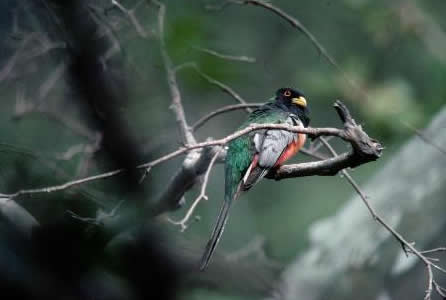 Elegant trogon (Trogon elegans)